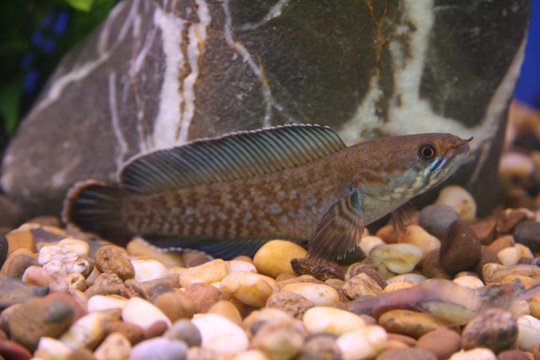 A blue rainbow snakehead fish belonging to an undescribed species of Channa family, labelled as "Channa sp. blue bleheri", at the 20th Pramong Nomklao fish show event at the Future Park Rangsit, Thailand, in July 2008. Picture taken by myself.